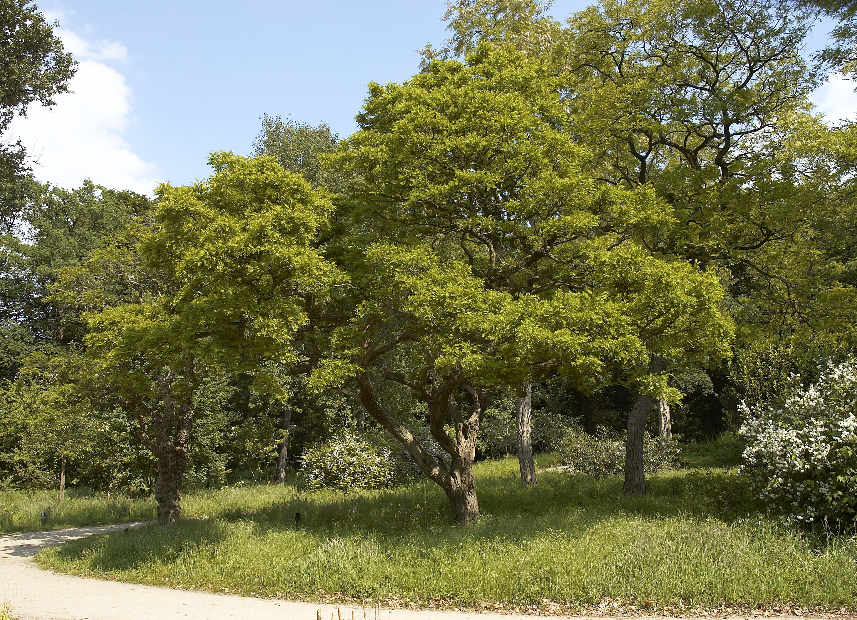 Robinia pseudoacacia Linnaeus 'Stricta' in arboretum Belmonte, Generaal Foulkesweg 94 of the university Wageningen, Netherlands